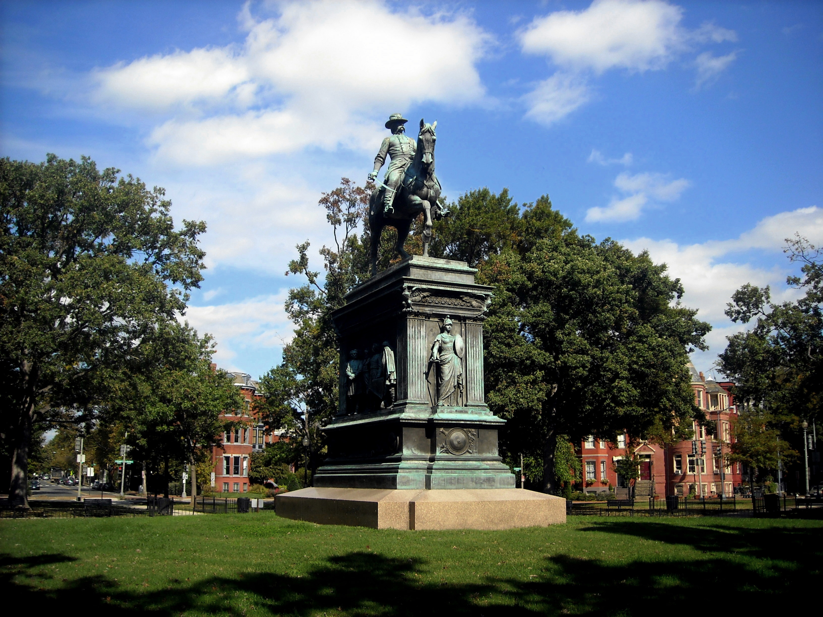 The monument honoring General John A. Logan, located in the center of Logan Circle in Washington, D.C. The bronze, equestrian statue was sculpted by Franklin Simmons, and the bronze statue base was designed by Richard Morris Hunt. The monument was dedicated on April 9, 1901. It is a contributing property to the Logan Circle Historic District, the Fourteenth Street Historic District, and the collective listing of Washington, D.C.'s Civil War statuary on the National Register of Historic Places.